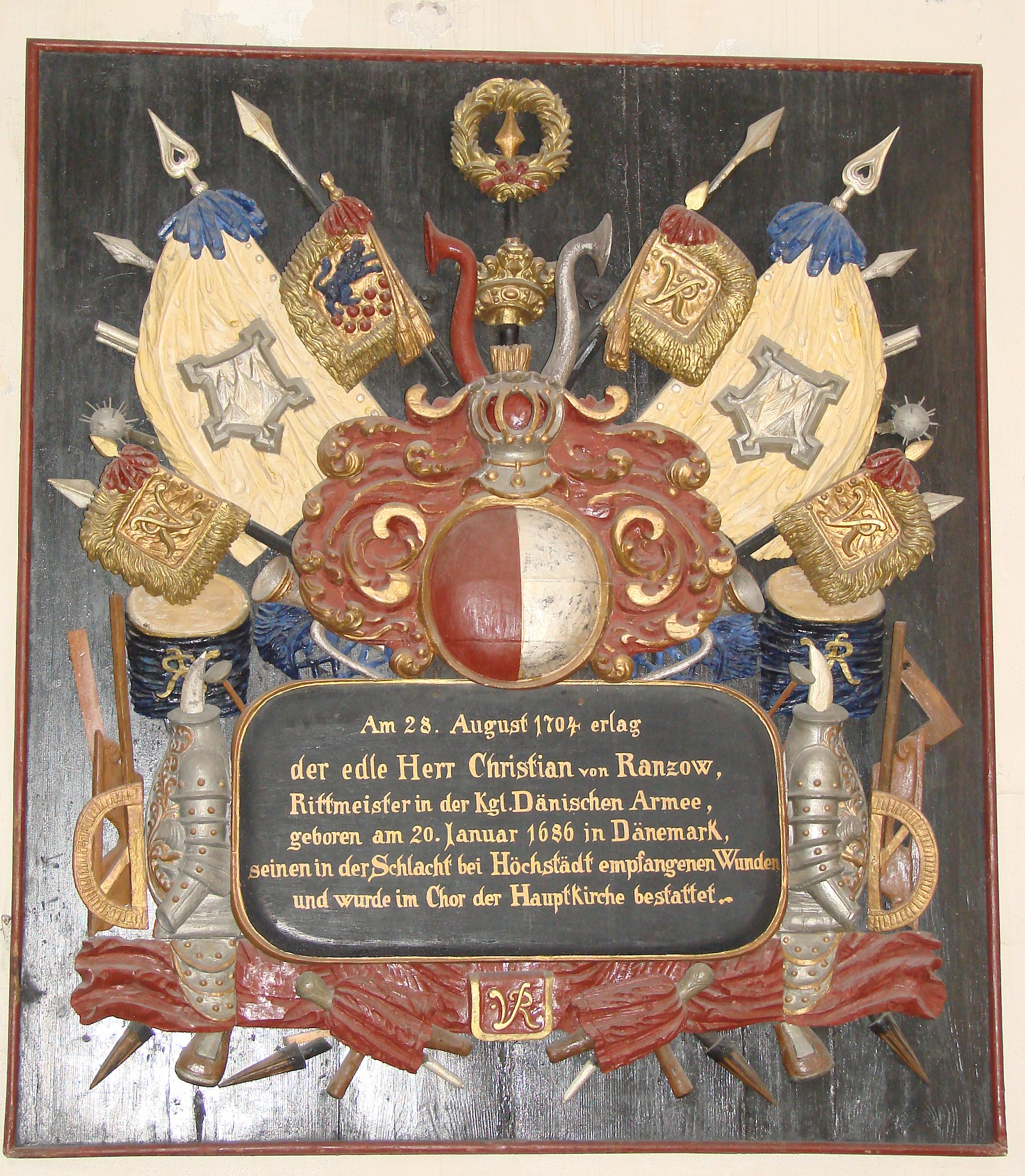 Nördlingen, Germany, St. George's church, Epitaph of Christian von Ranzow